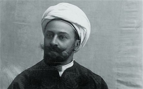 Max_von_Oppenheim_Turban_druckreif.jpg